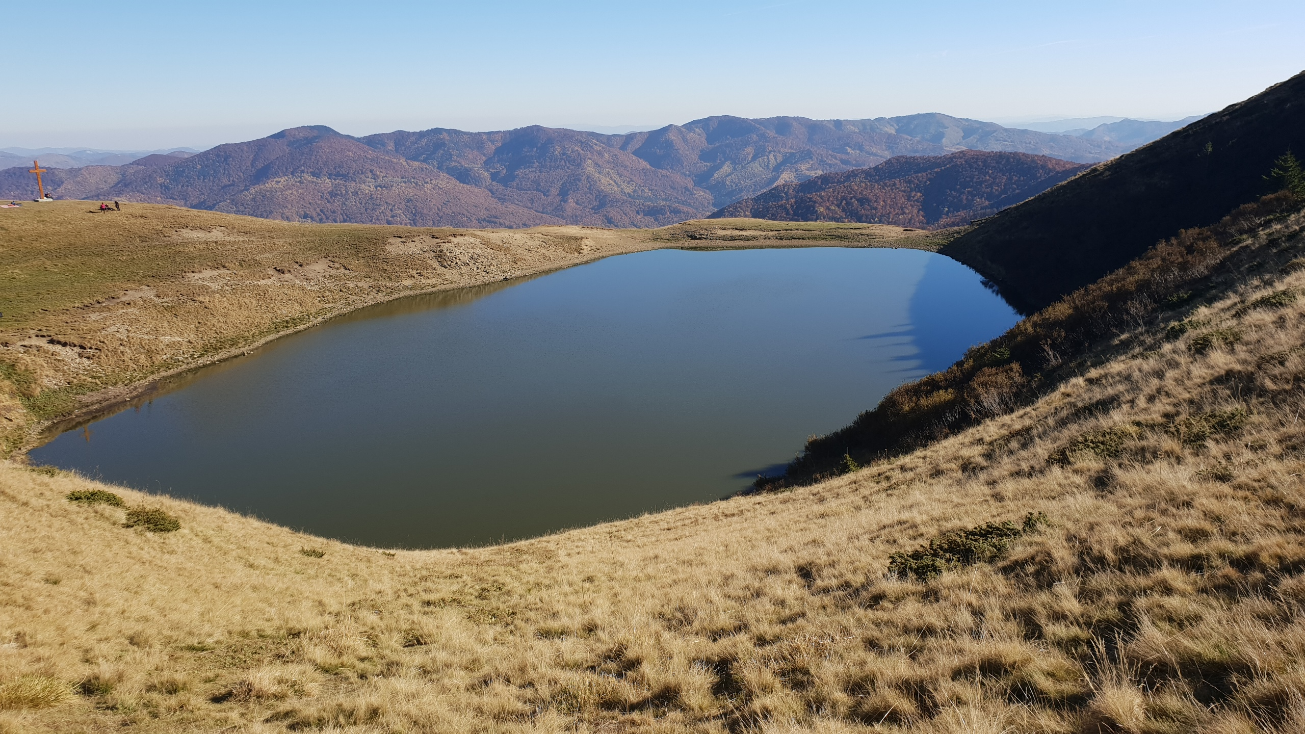 Lacul Vulturilor (Lake of Eagles) in Buzau County, Romania